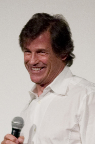 Michael Paré at the Alamo Drafthouse screening of Streets of Fire.